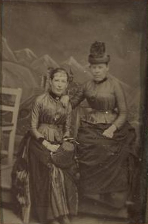 Maria Tschetschulin (right), the first Finnish woman to take the matriculation exam, and her younger sister Melania.